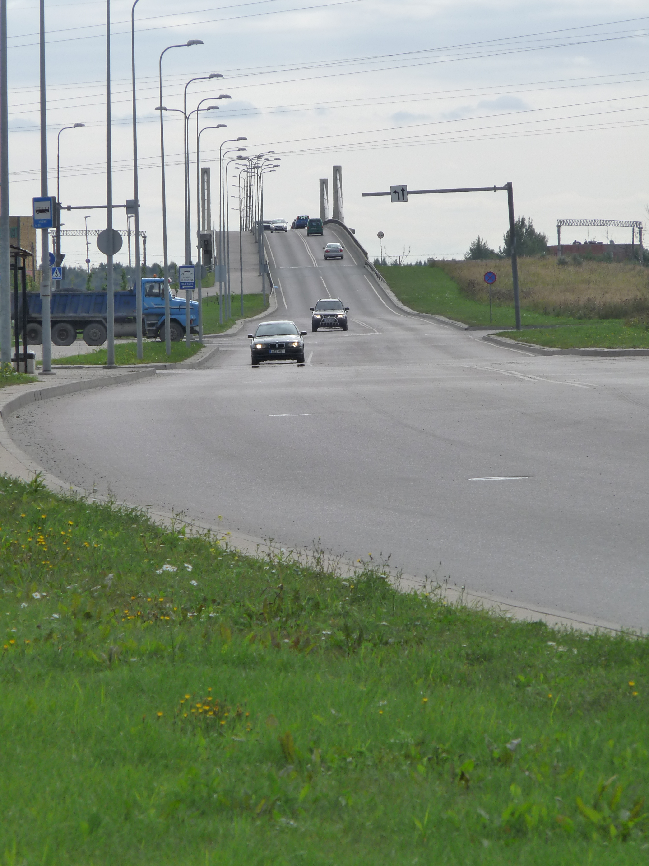 Smuuli viaduct